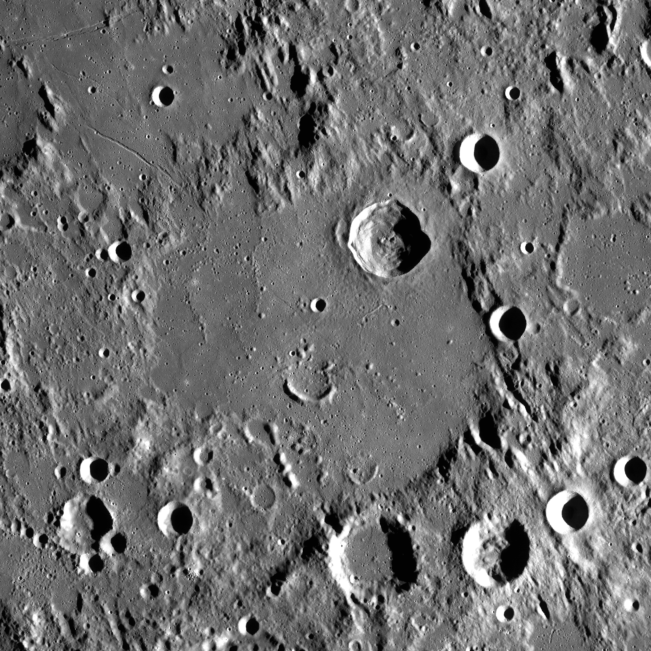 Crater Hipparchus on the Moon. Mosaic of photos by Lunar Reconnaissance Orbiter, made with Wide Angle Camera. Size of the image is 250×250 km, north is approximately up.